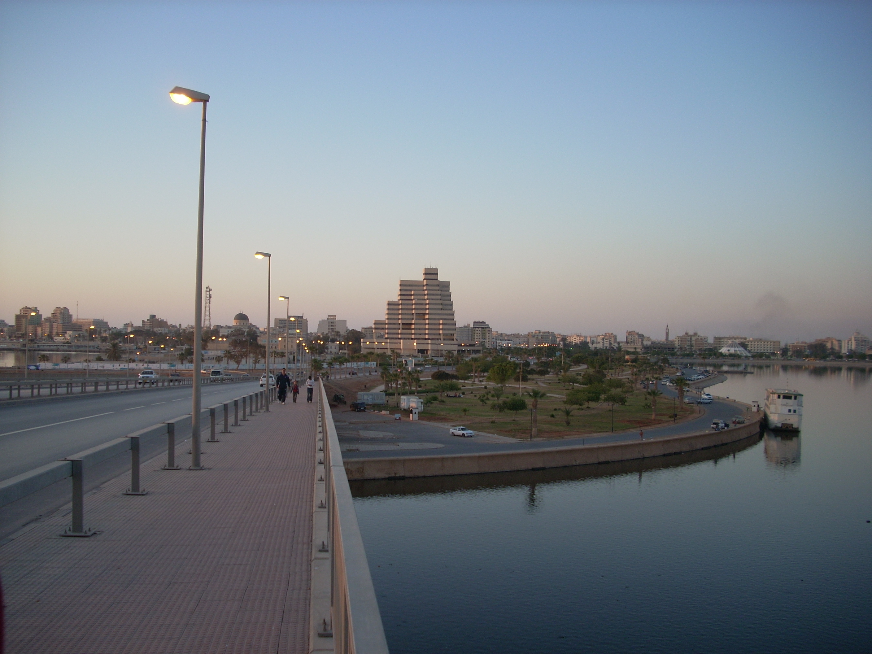 Looking over the Jeliana bridge towards the Da'waa Islamiya building and downtown Benghazi